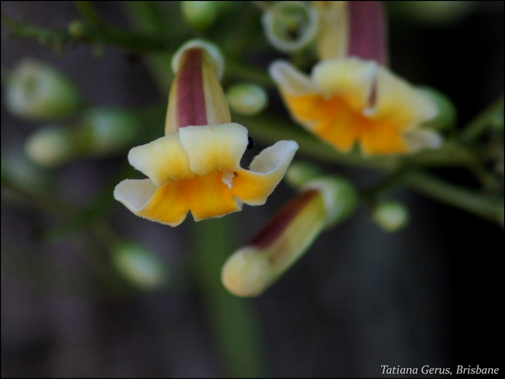 As the name says, the tree is native (endemic) to Seychelles (east of Madagascar, Indian ocean) Location: Mt. Coot-tha Botanic Gardens, Brisbane, Australia The flowers are small - 3-4 cm long. Family: Bignoniaceae, tribe Coleeae Apparently it is the first image of this species in Flickr.